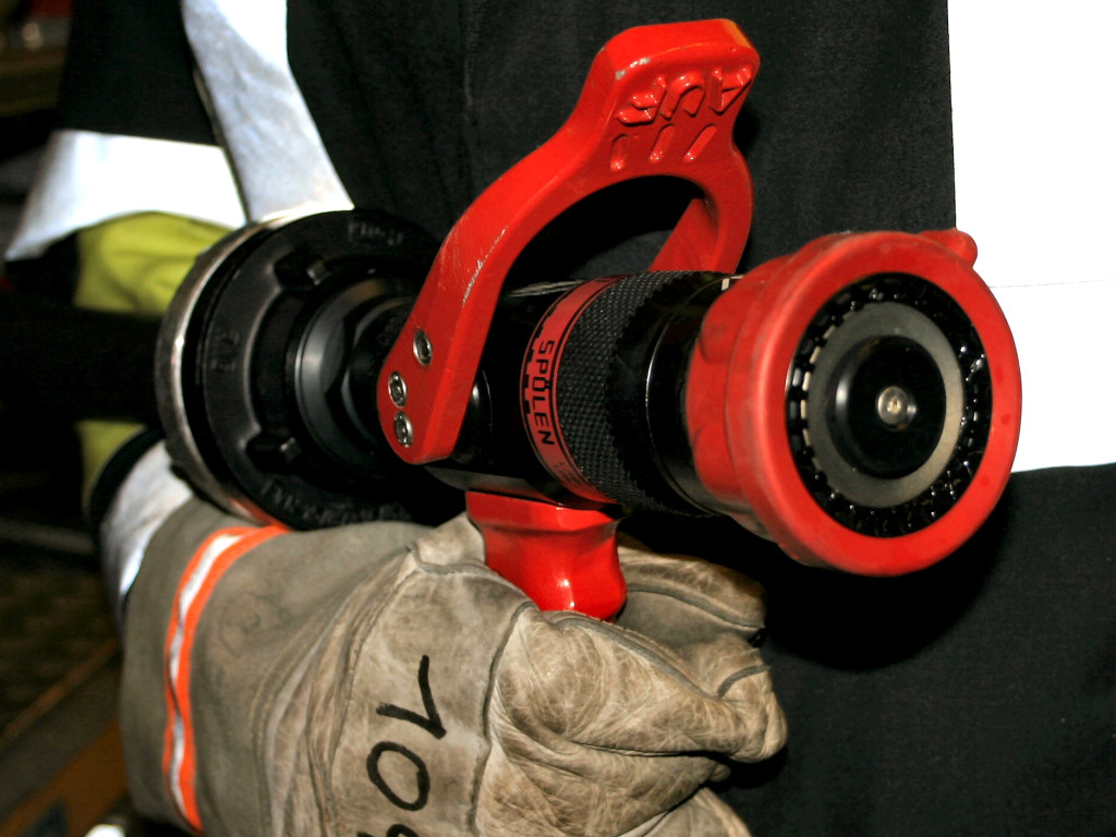 Hohlstrahlrohr of the Munich Volunteer Fire Brigade - Sendling Department